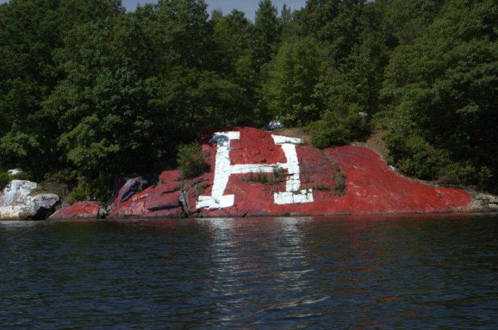 The Rock at Bartlett's Cove, the north end of the Harvard-Yale race course